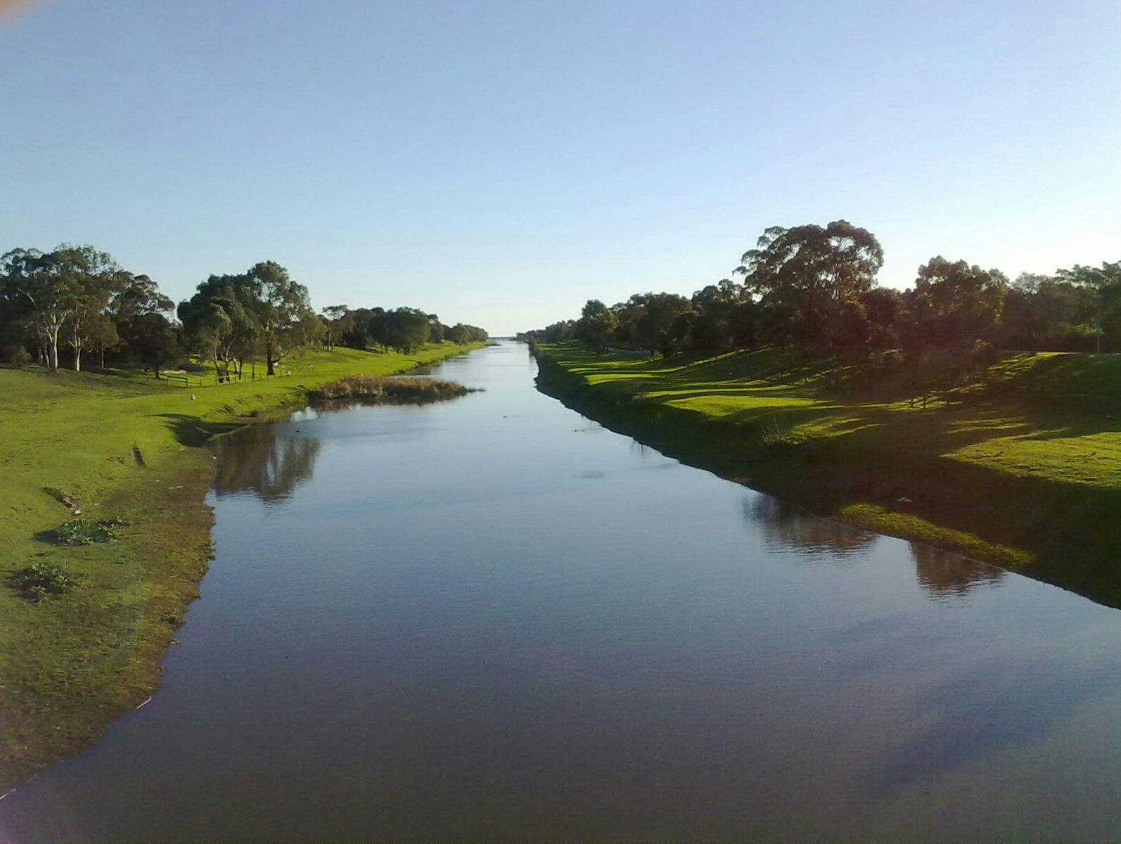 River Torrens, looking west from the Tapleys Hill Road bridge. West Beach is on the left and Henley Beach South is on the right.